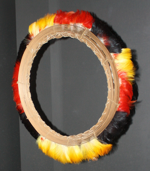 Achuar feather head ring, ca. 192501936, Oriente Region, Ecuador. 29 cm diameter. NMAI 19/7205